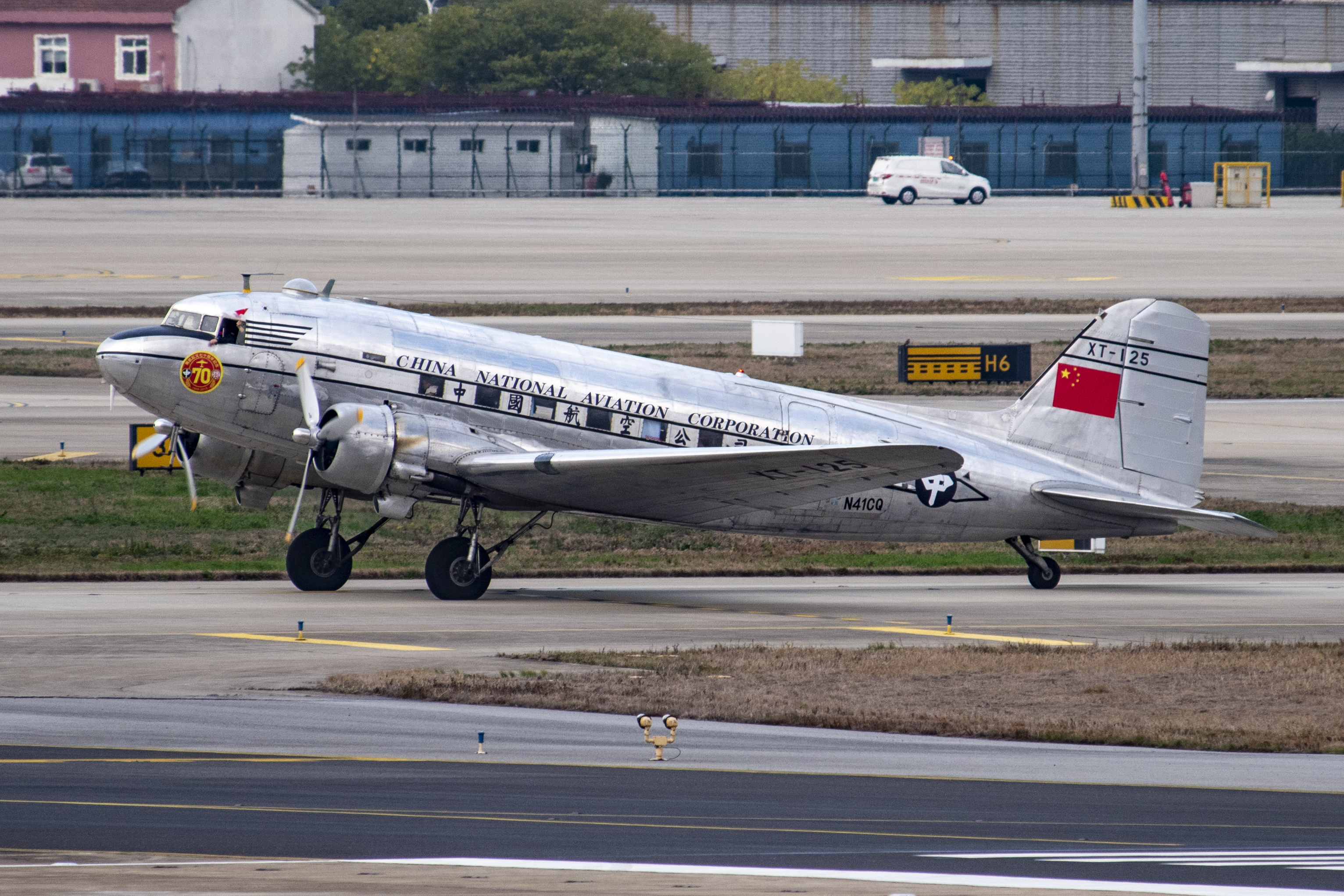 N41CQ to Beijing-Daxing, with CNAC XT-125 livery. This 1945-built DC-3 was repainted into this livery for a special flight commemorating the 70th anniversary of "Two Airlines' Uprising": from Yaohu to Nanchang Changbei, Hong Kong, Guangzhou, Shanghai and eventually Beijing.